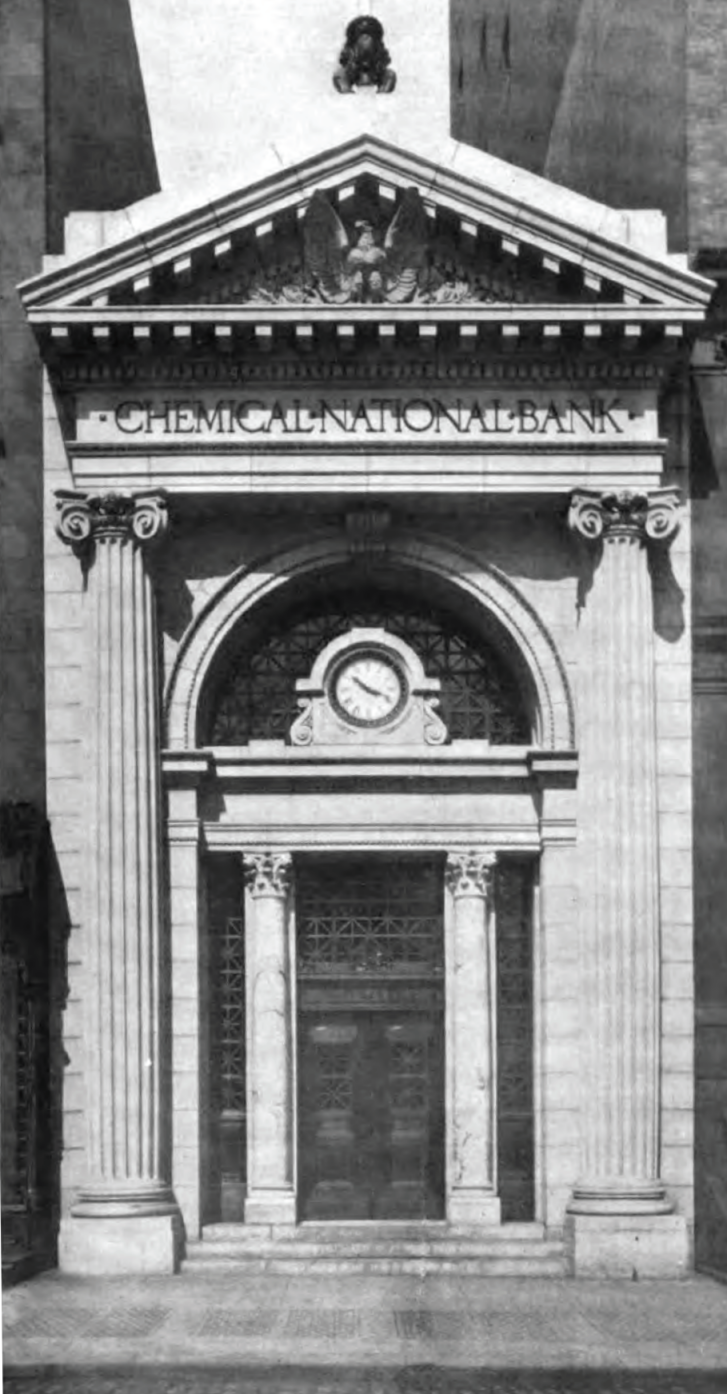 Front facade of Chemical National Bank (Chemical Bank) ca. 1913